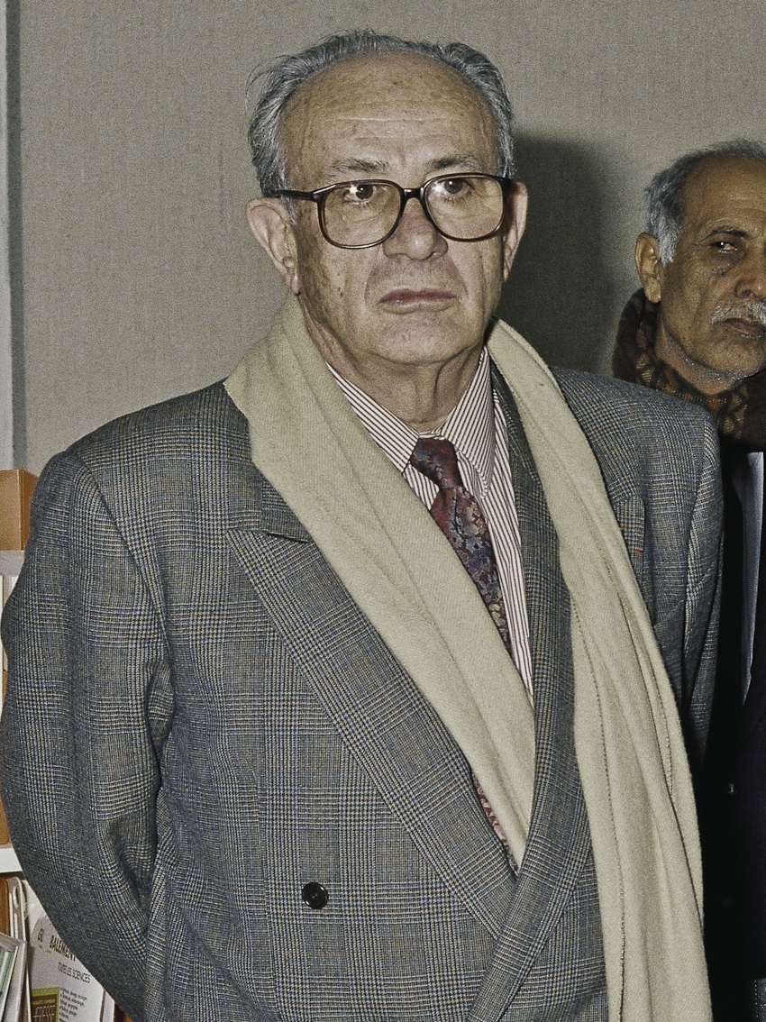 .Visite de Mr Michel Cointat à l'INRA de Versailles